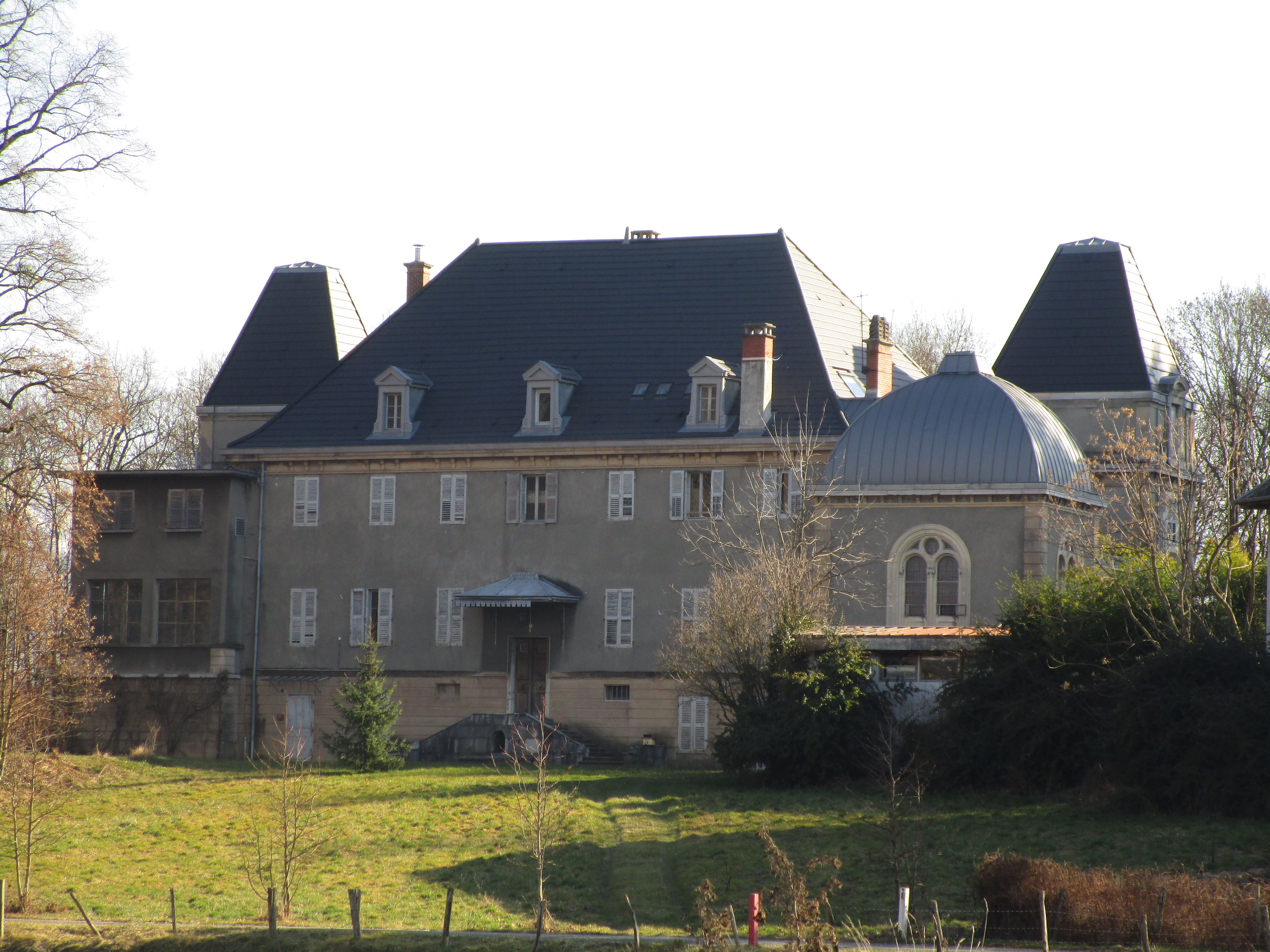 The château des Charmilles in La Ravoire on February 25, 2017.